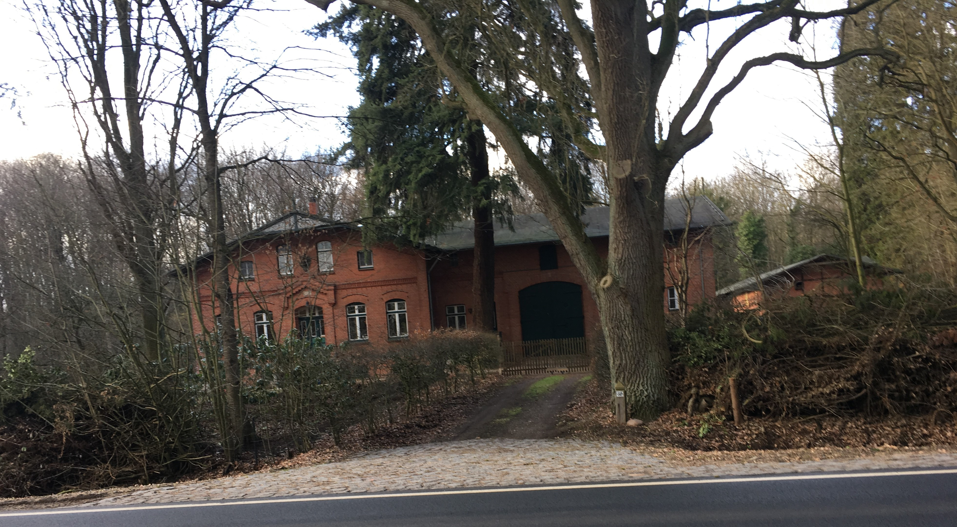 Kannenbruch